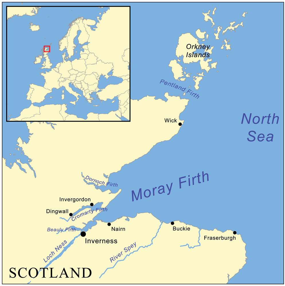 This is a map of the Moray Firth including a small locator map, based on Digital Chart of the World data.